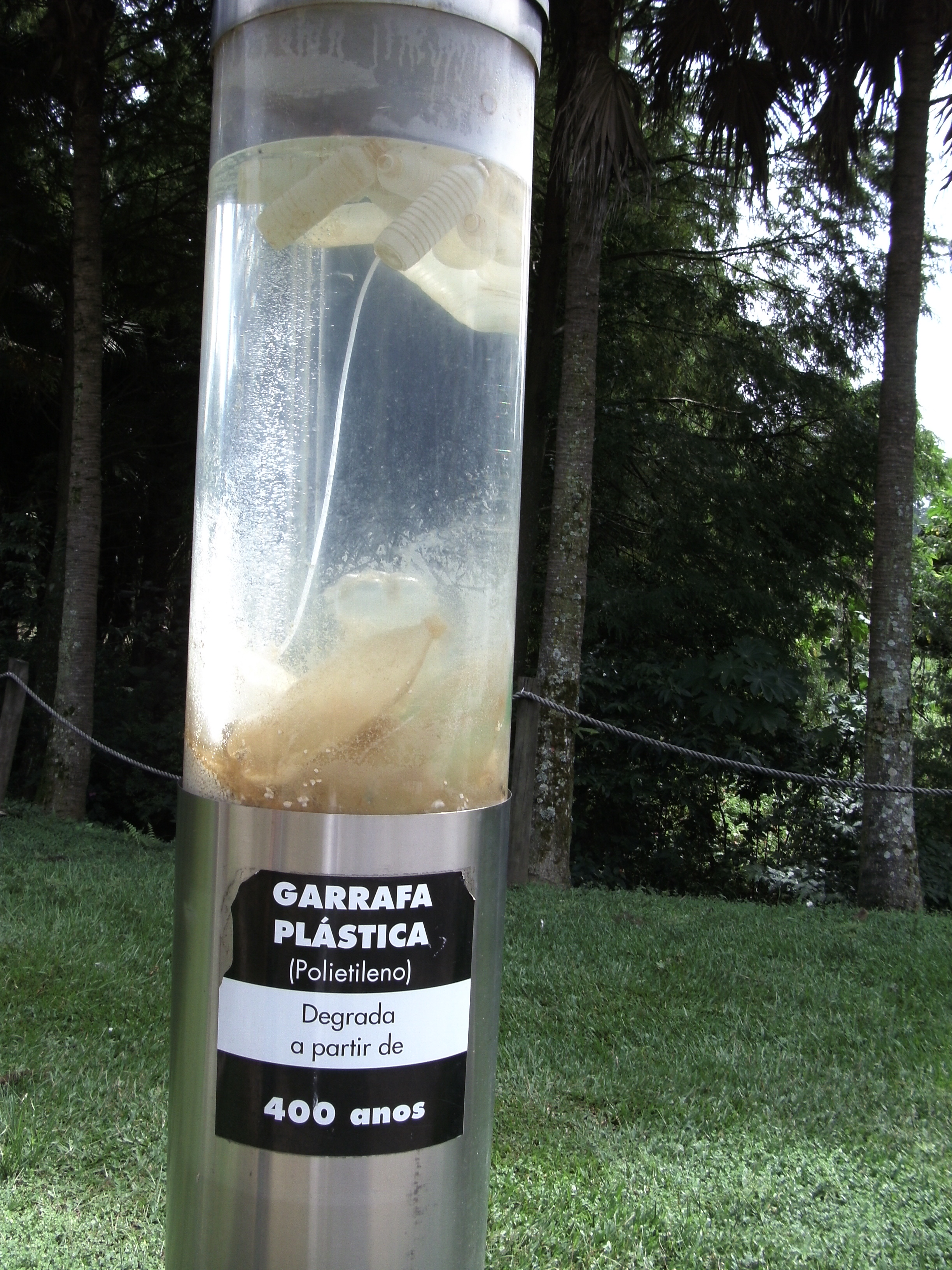 Polyethylene